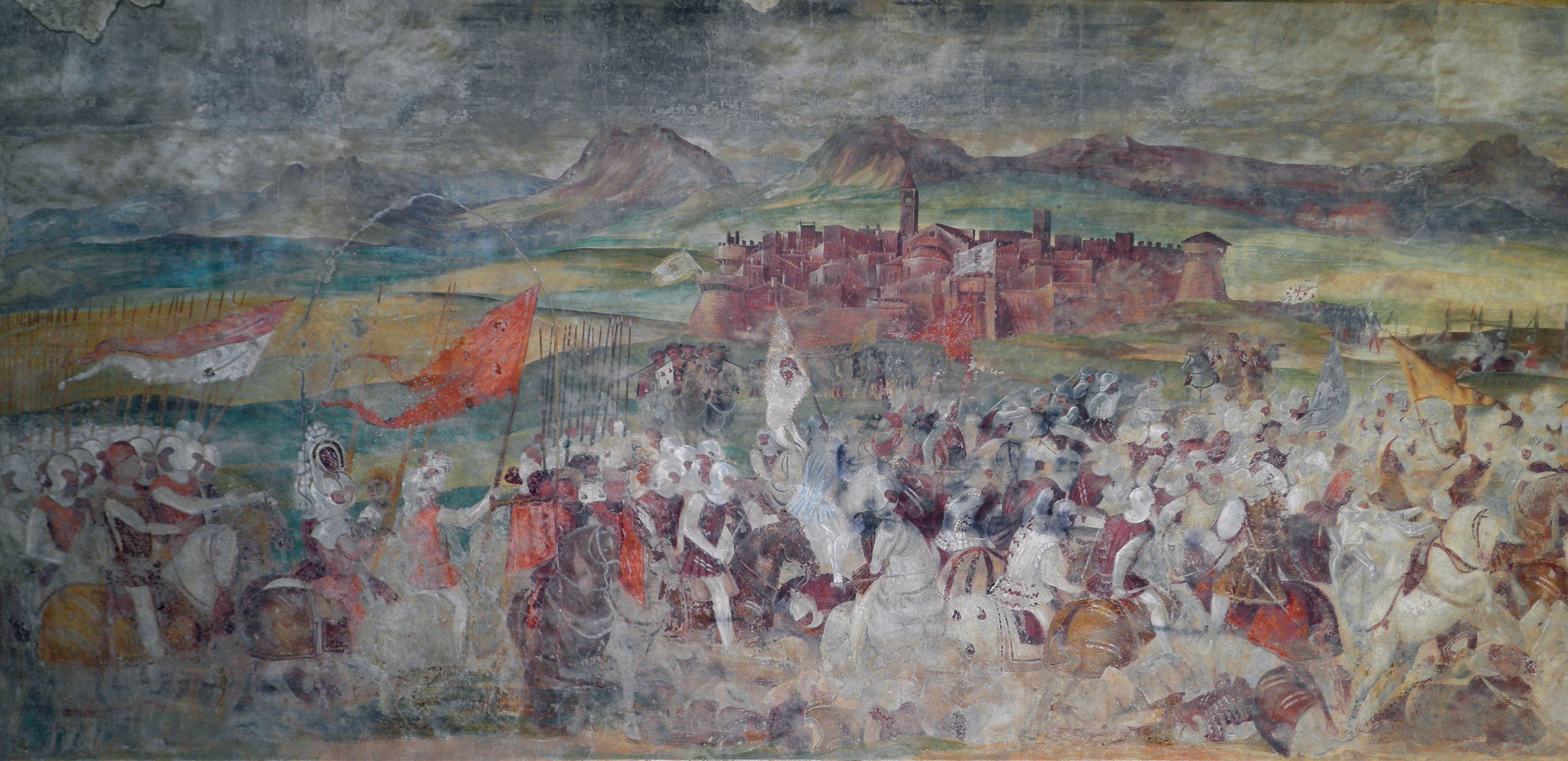 Fresco of Malpaga Castle, that represent de siege of Bergamo in 1437.